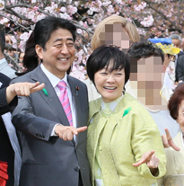 Shinzō Abe, Prime Minister, hosted the Cherry Blossom Viewing Party at Shinjuku Gyoen in Shinjuku Ward and Shibuya Ward, Tōkyō Metropolis on April 15, 2017. Akie Abe, spouse of Shinzō, attended the party.